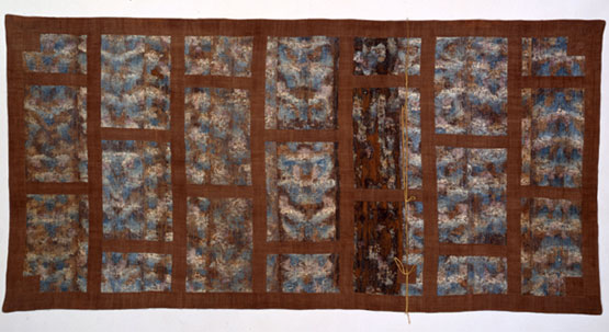 Quilted seven-strip Surplice (七条刺納袈裟, shichijōshinōkesa). 132cm、(length) x 260cm (width). Located at Enryaku-ji, Ōtsu, Shiga, Japan. The item has been designated as National Treasure of Japan in the category "crafts".